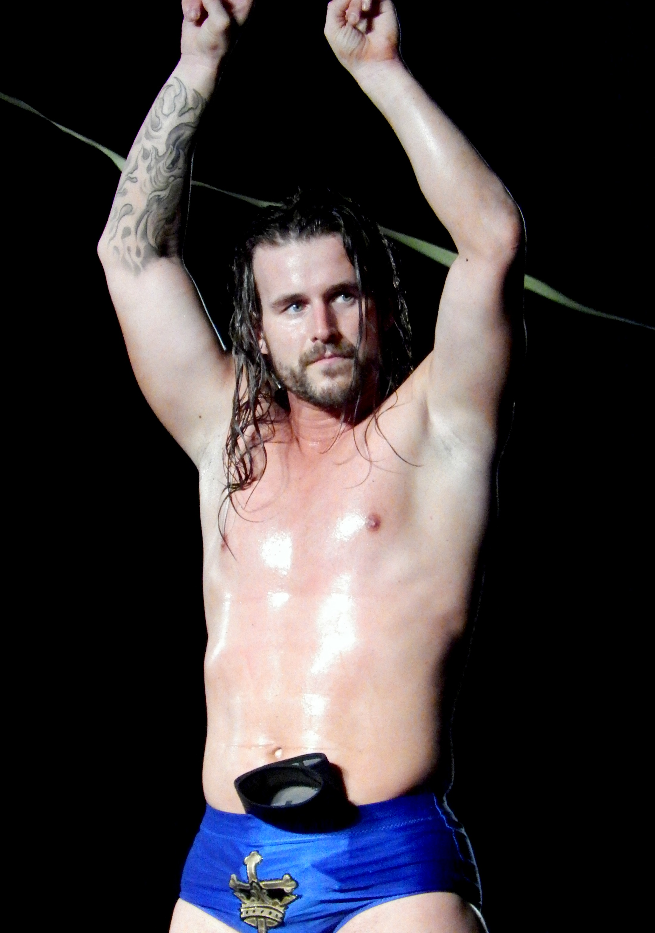 Adam Cole at an ROH taping on September 12, 2015.